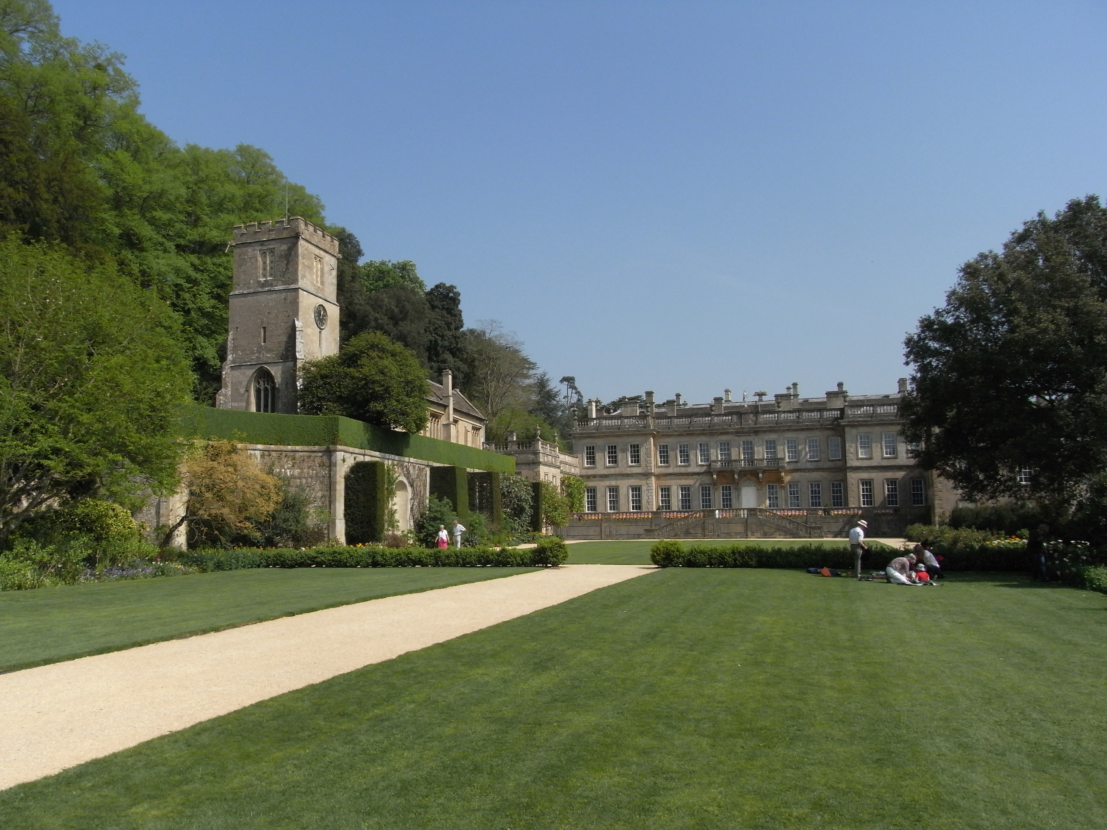 Parish church of St. Peter's, Dyrham, Gloucester, with the mansion of Dyrham Park in background